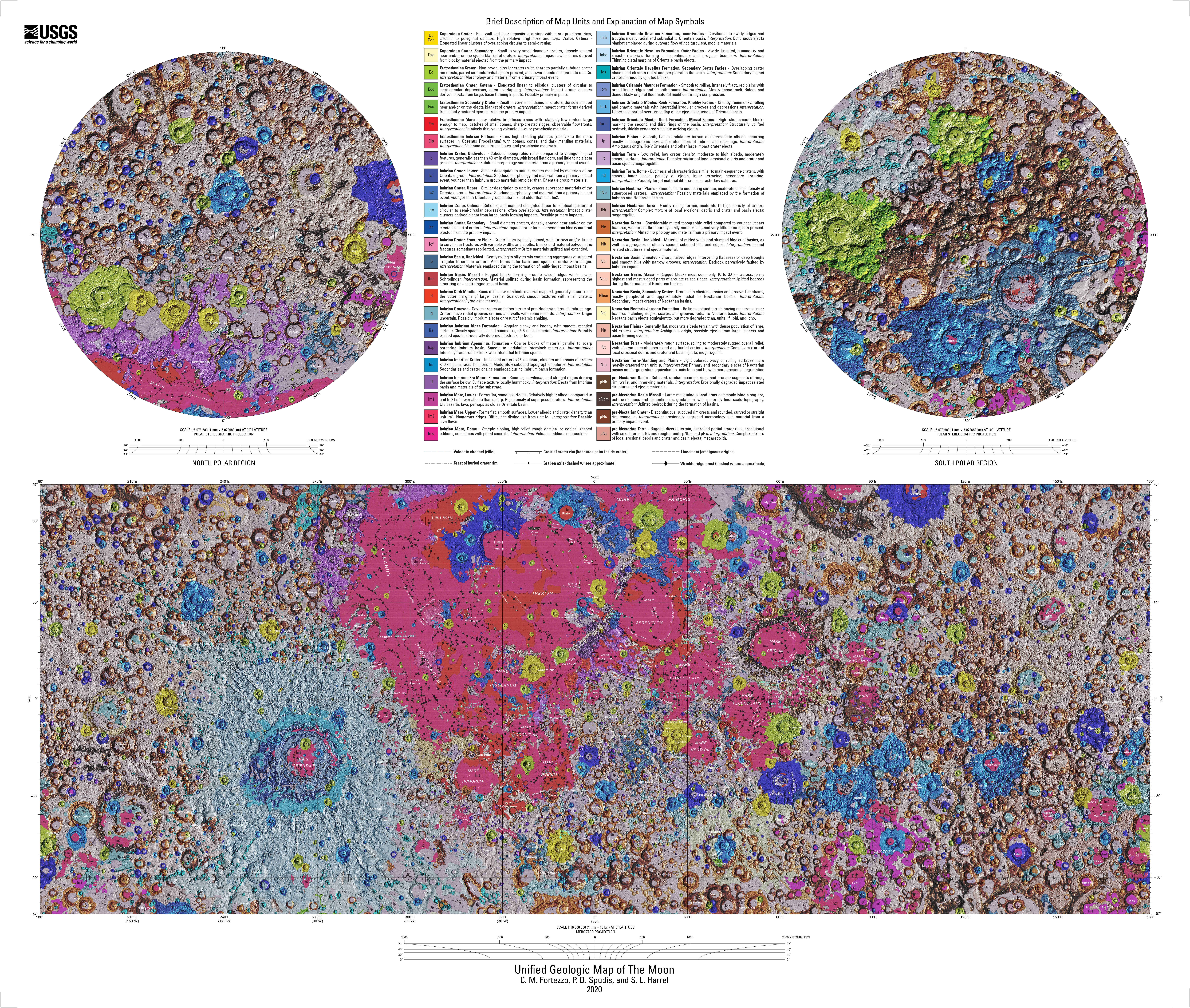 Geologic Map of the Moon